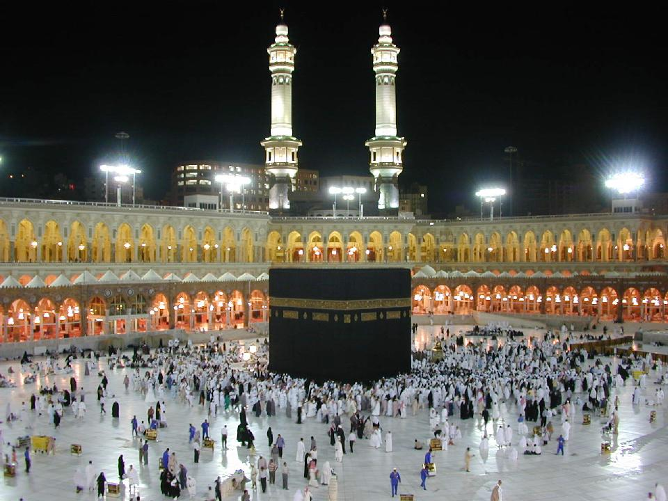 Kaaba at the heart of Mecca. As the night goes on pilgrims visiting the Holy House.